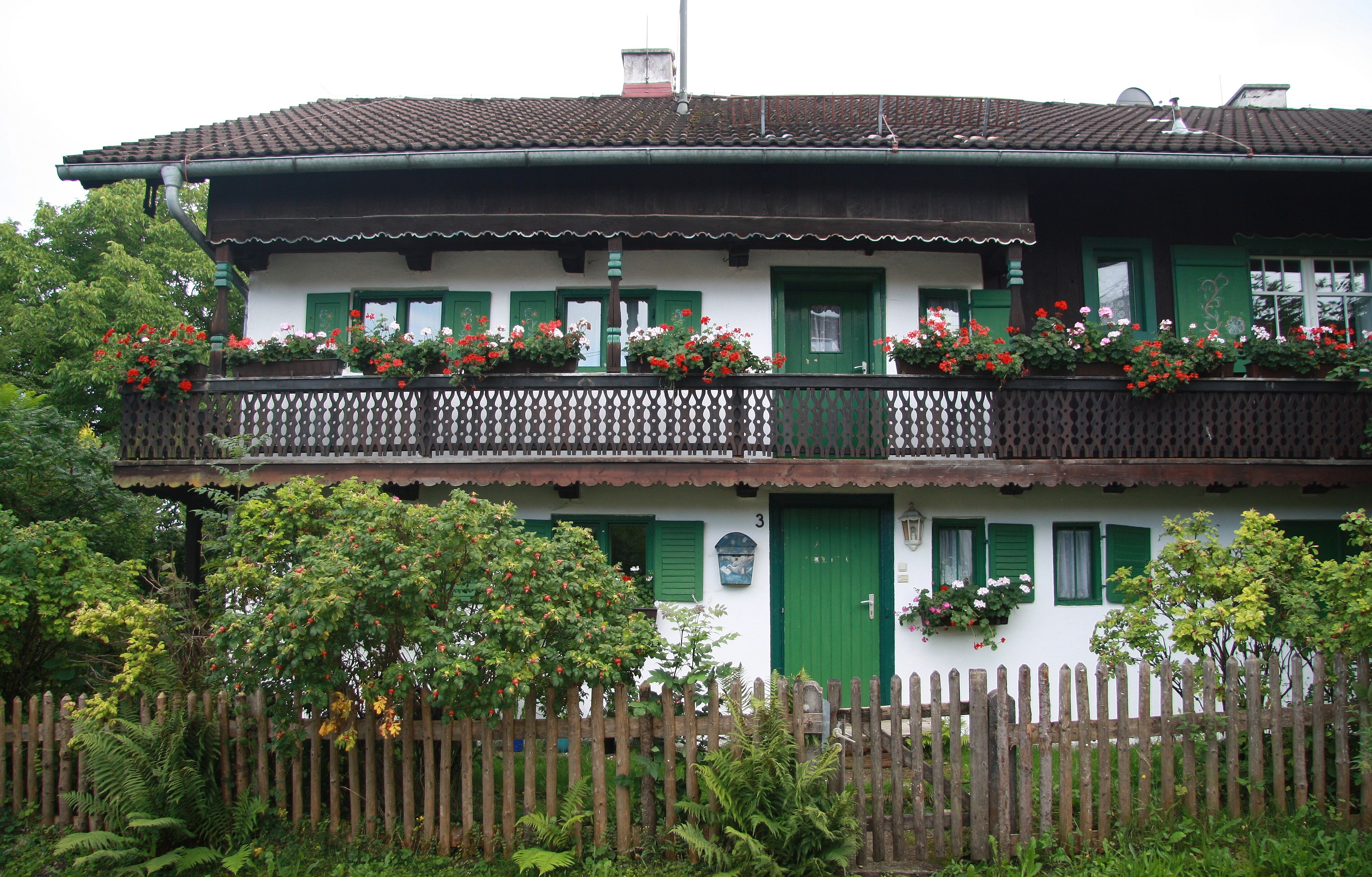 Overview of Neufahrner Weg 3 (Penzion Berghammer), Irschenhausen, Bayern.